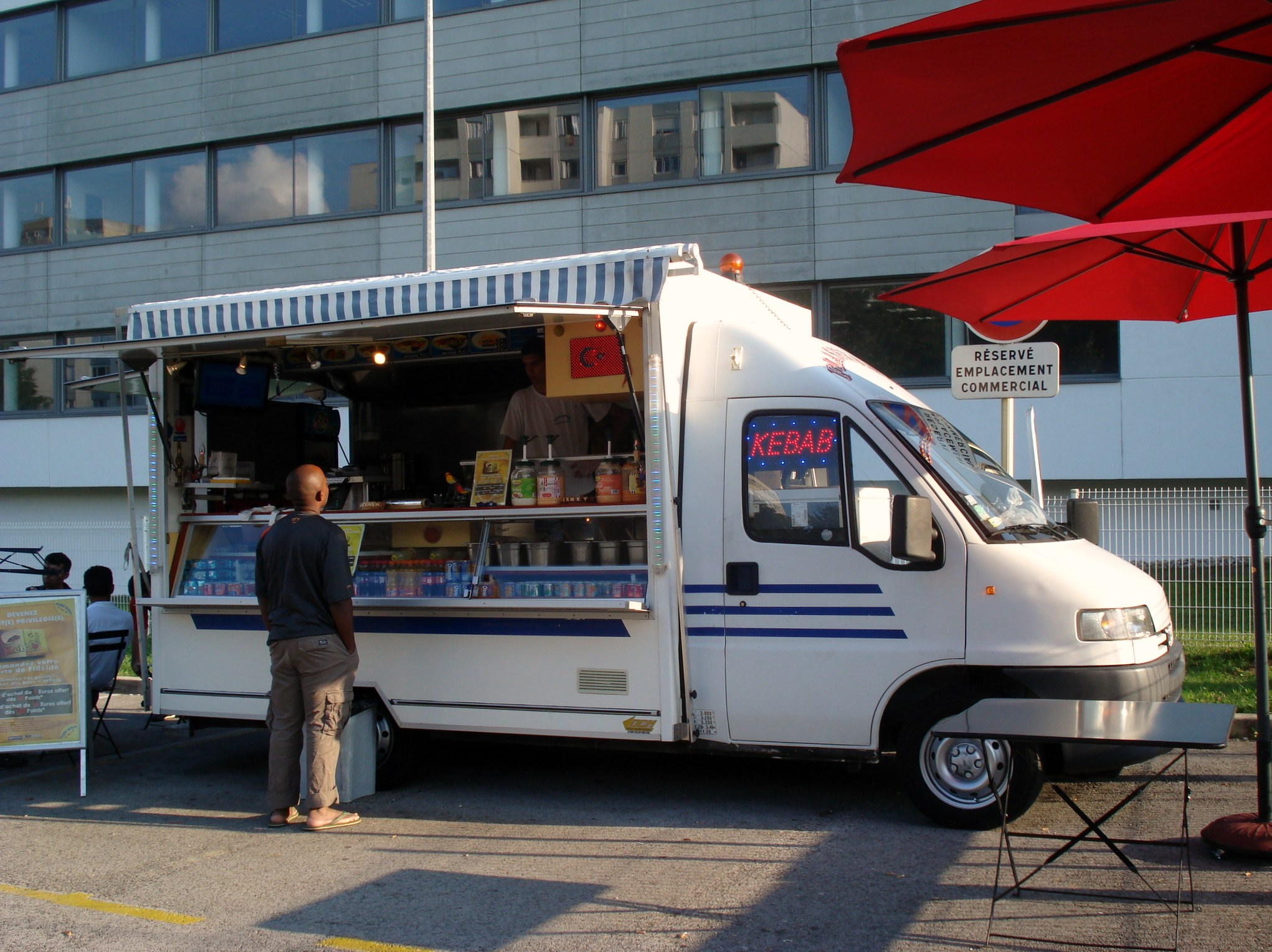 Kebab car in Besançon (Doubs, France).